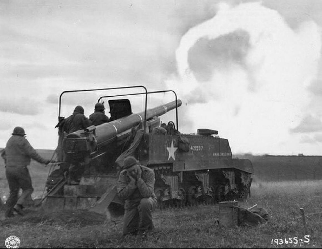 M12 155mm self-propelled gun firing across the Moselle River in France, 1944.